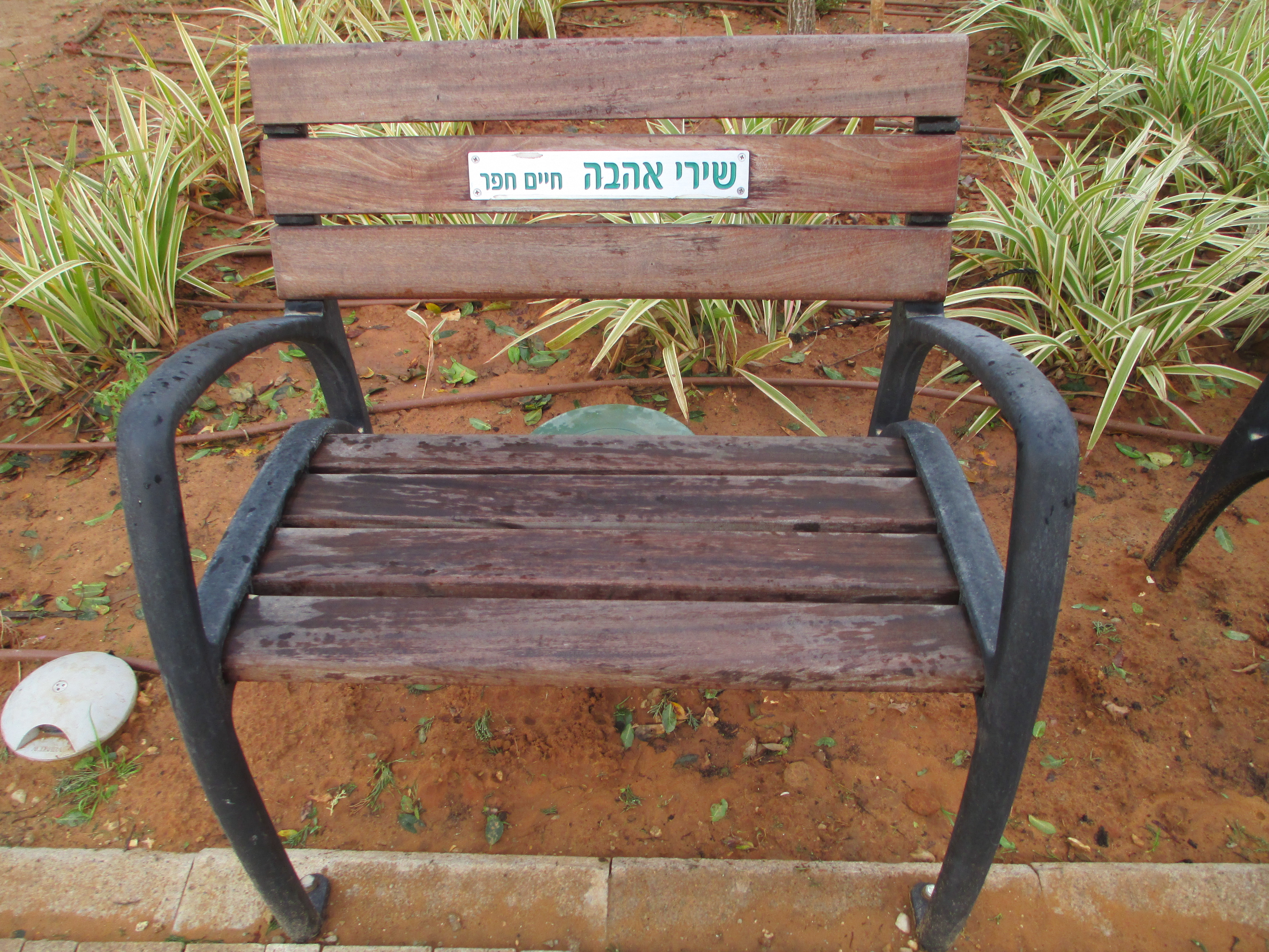 Haim Hefer memorial bench in Sarona